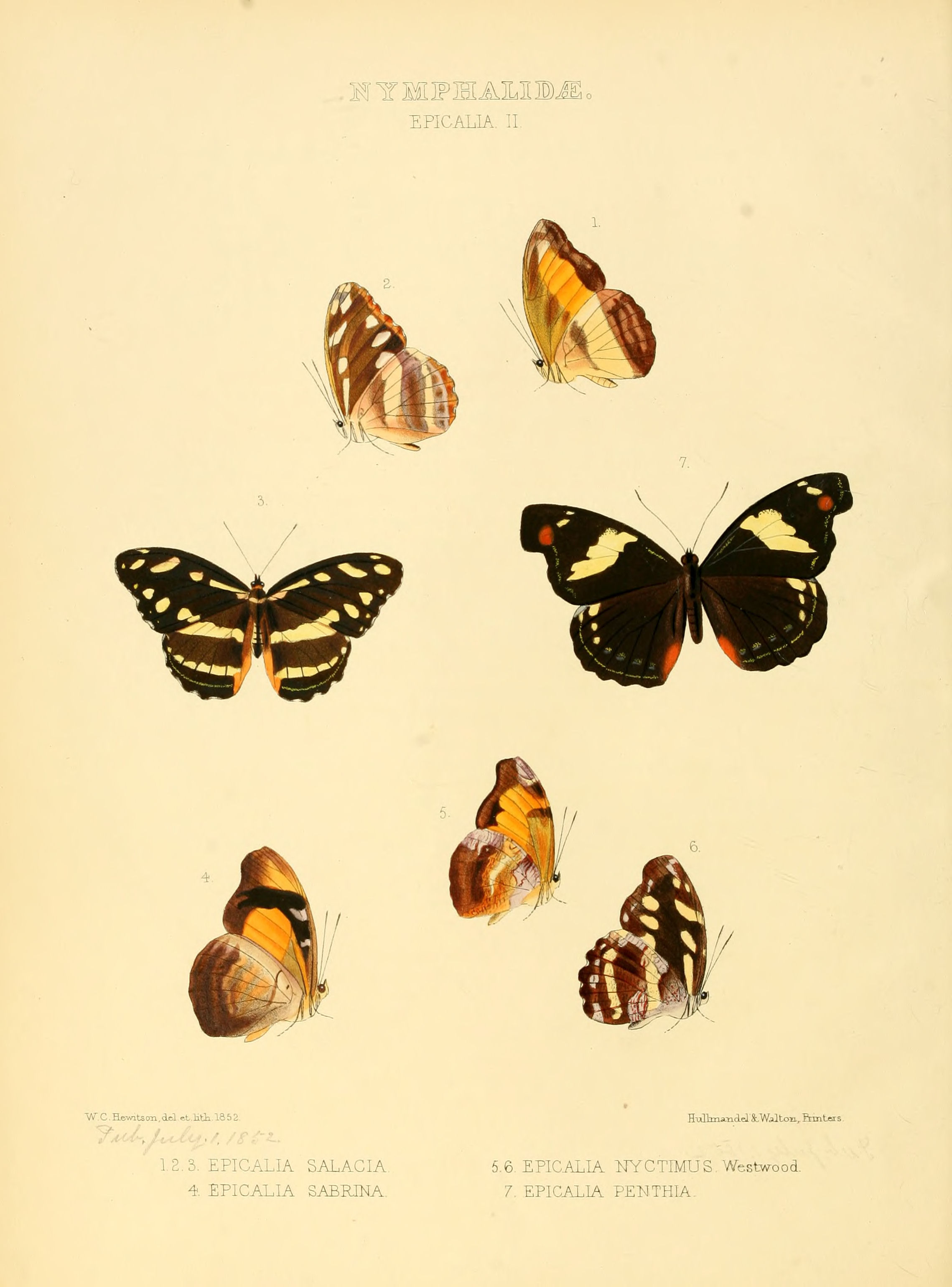 Plate: Epicalia II Epicalia salacia. Figs. 1, 2, 3. Accepted as Catonephele salacia (Hewitson, 1851). Epicalia sabrina. Fig. 4. Accepted as Catonephele sabrina (Hewitson, 1851). Epicalia nyctimus. Figs. 5, 6. Accepted as Catonephele nyctimus (Westwood, 1850). Epicalia penthia. Fig. 7. Accepted as Catonephele numilia (Cramer, 1775).